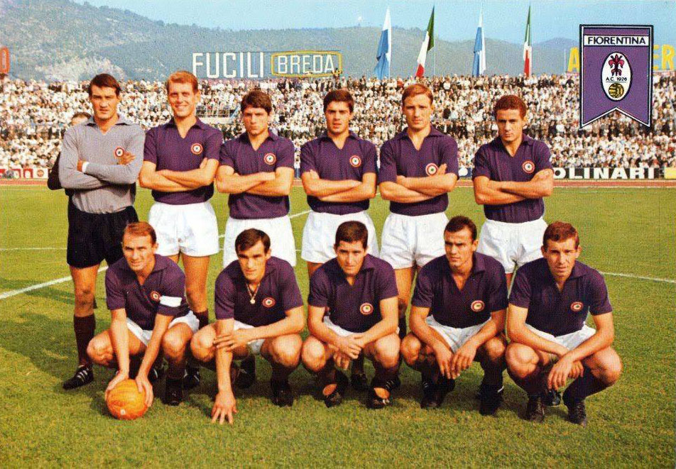 Brescia, Mario Rigamonti Stadium, September 25, 1966. A line-up of A.C. Fiorentina took to the field in the away tie versus A.C. Brescia (0-0), Matchday 2 of the Italian Championship 1966–67 Serie A.